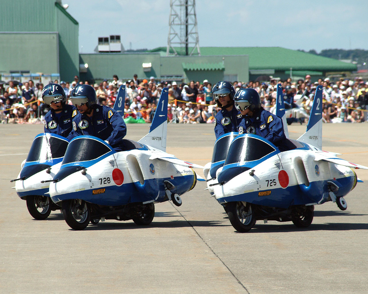 Blue Impulse Jr. JASDF Matsushima Airbase, 2006